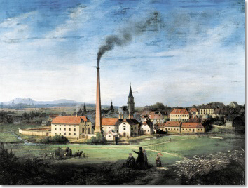 chemical industries in Marktredwitz, Germany, founded 1788, picture shows industry plant about 1860